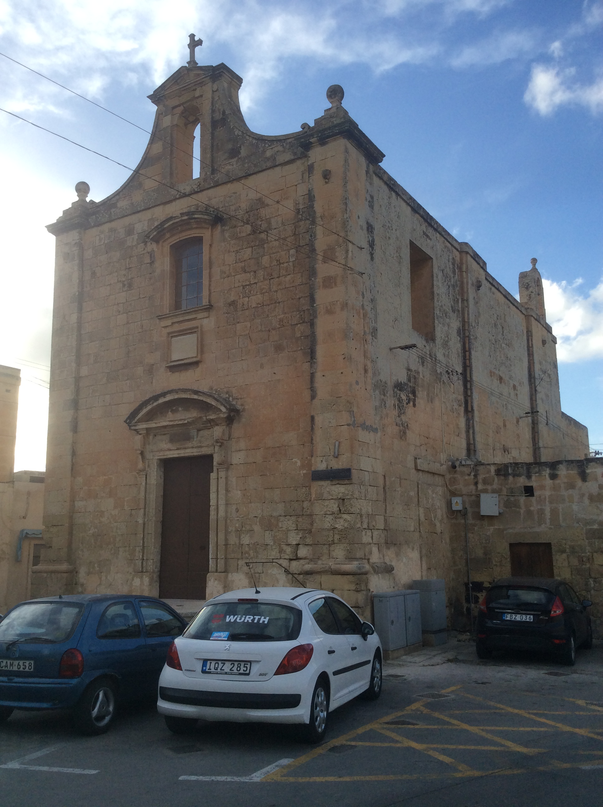 Chapel, Zejtun, Malta